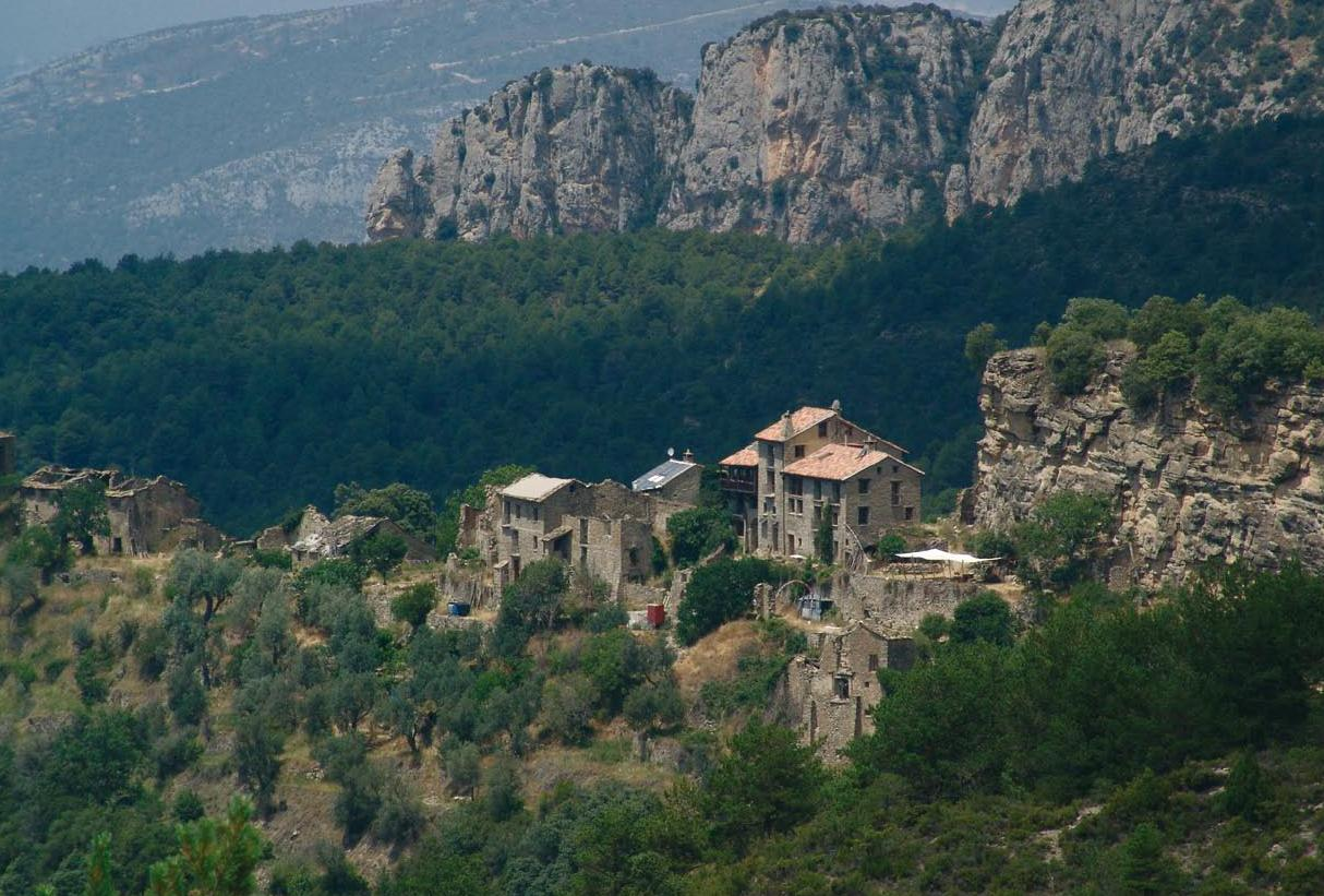 Pano (Huesca) View